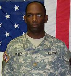 Major Alan G. Rogers, 40, of Hampton, Florid, died January 27, 2008, of wounds suffered when an improvised explosive device detonated while he was conducting a dismounted patrol in Baghdad, Iraq. He was assigned to the Military Transition Team, 1st Brigade, 1st Infantry Division, Fort Riley, Kansas.